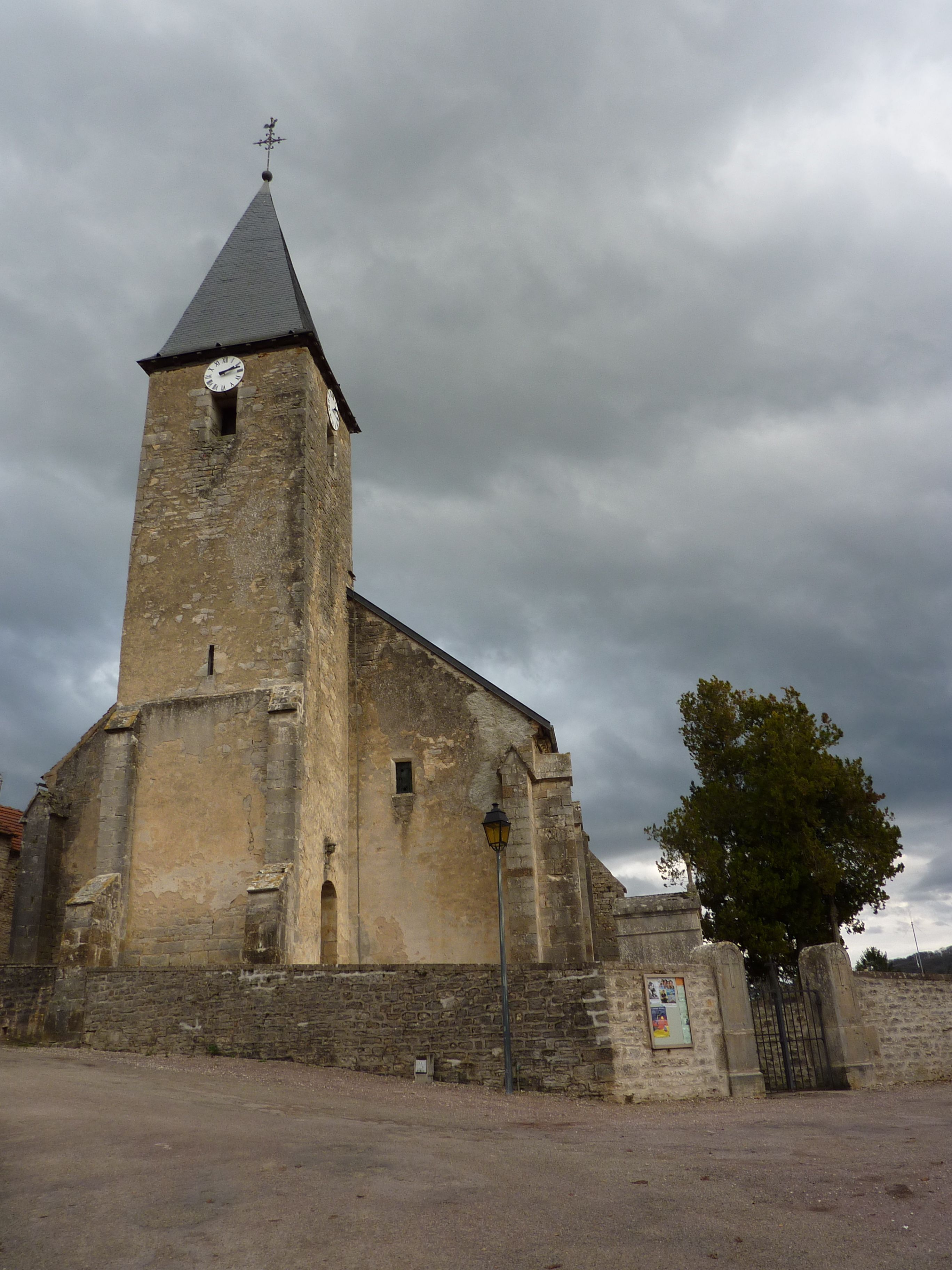 Catholic church of Darcey, Côte d'Or, France